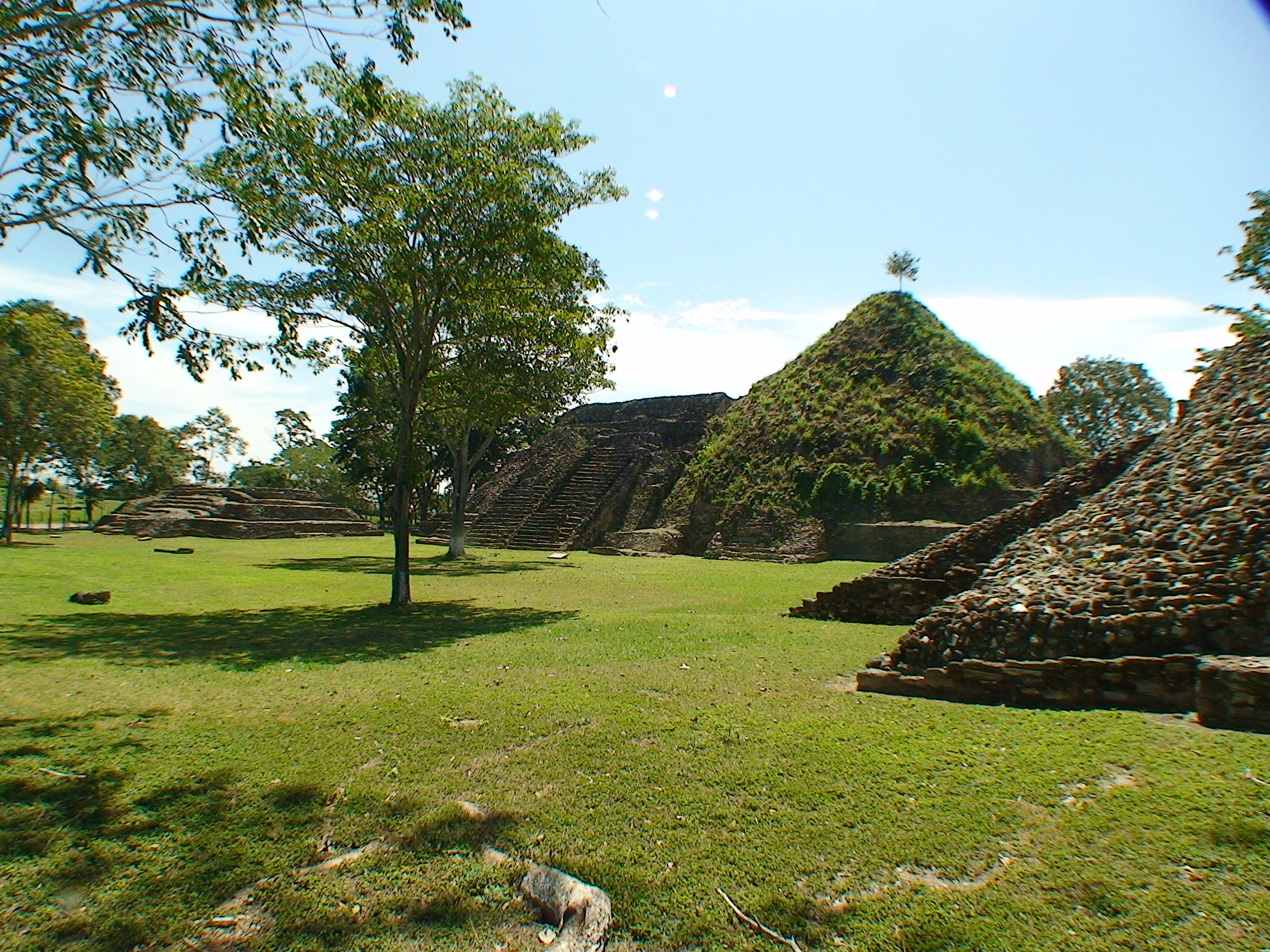 La Reforma, Tabasco, Mexico: Group 1, buildings E1 and E2